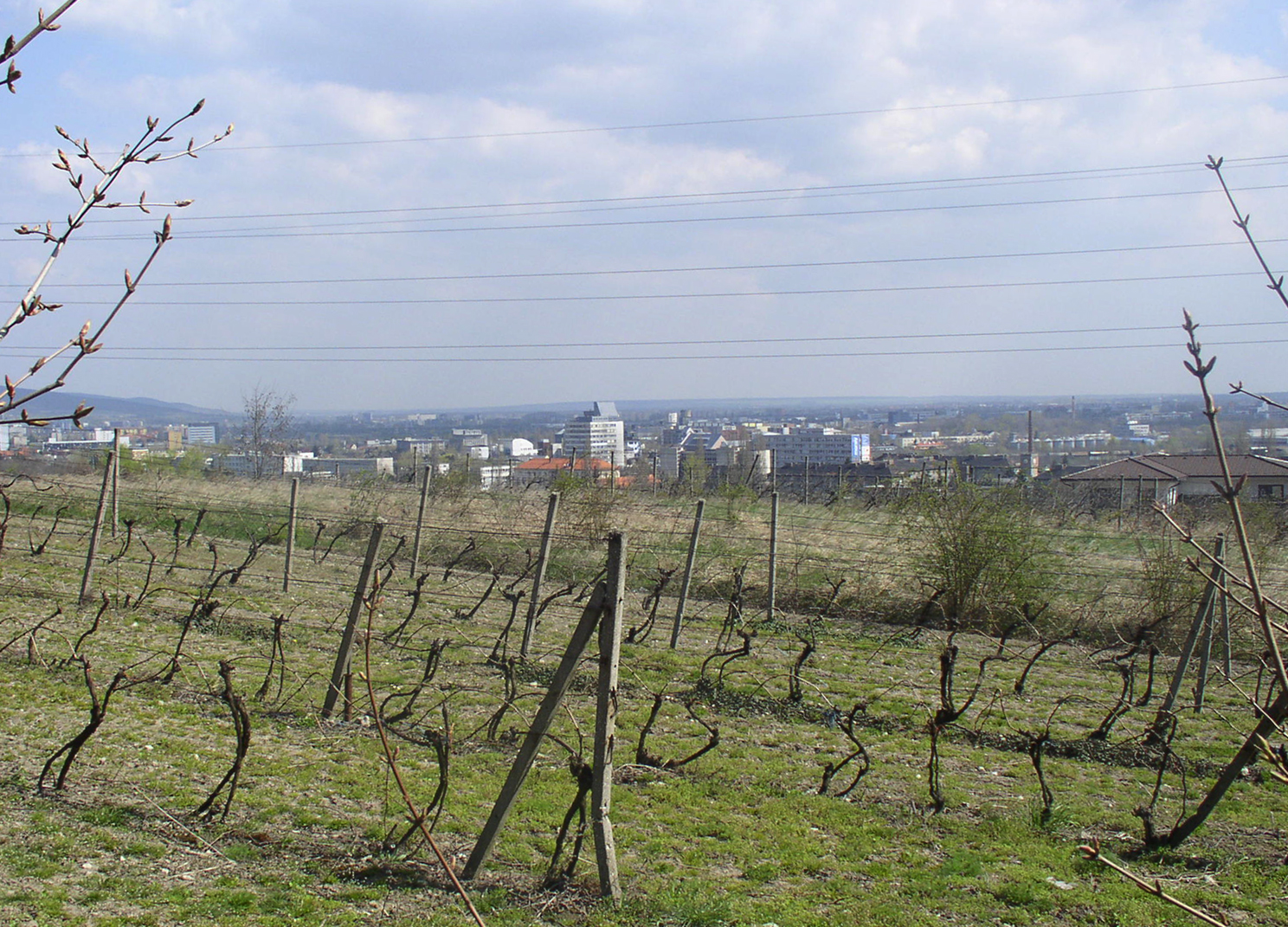 Slovakia – Briežky, Bratislava. The vineyards